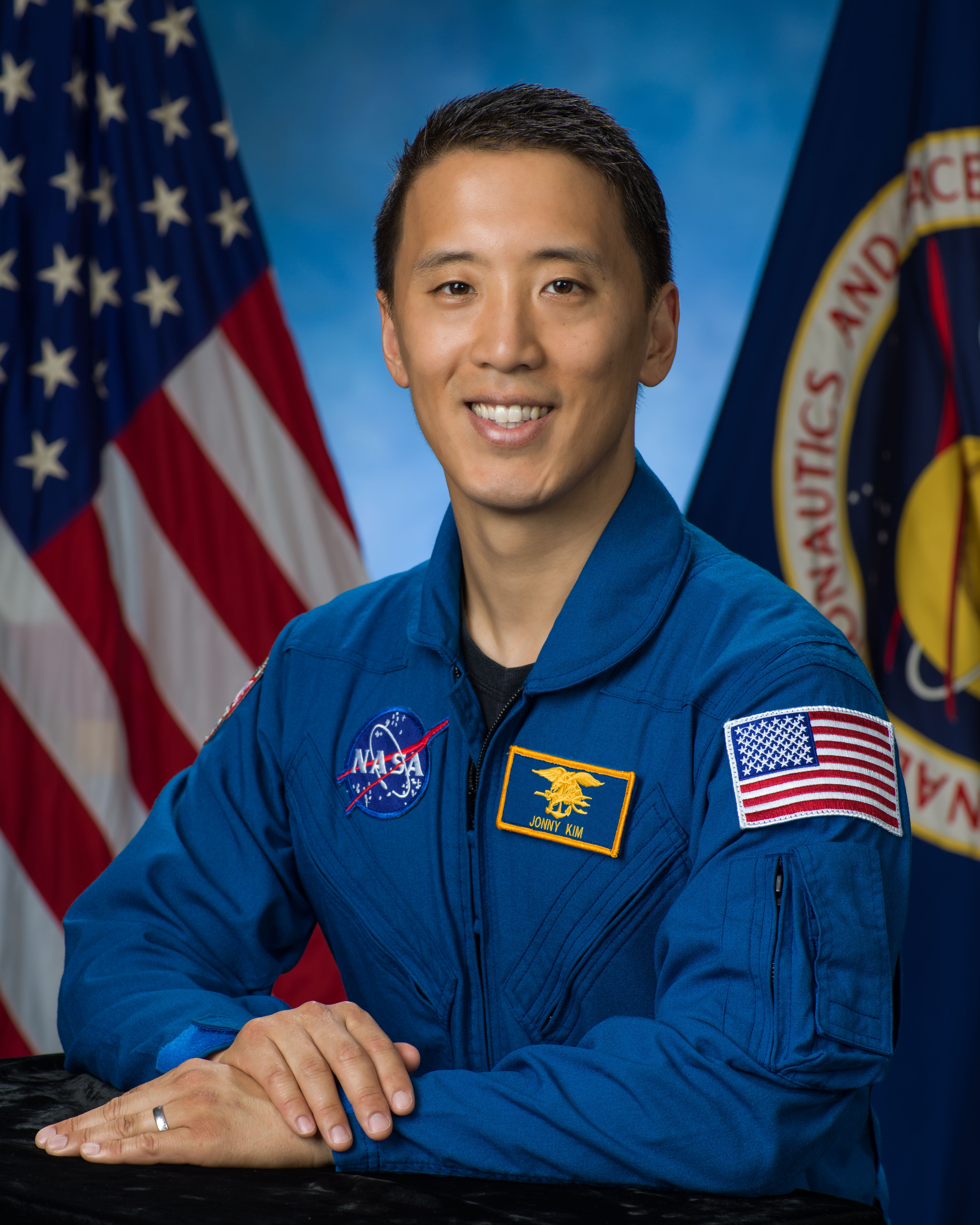 2017 NASA Astronaut Candidate Jonathan Kim